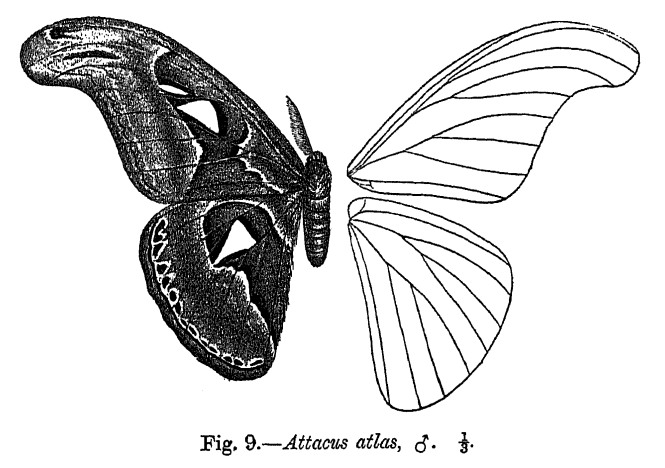 Male Attacus atlas (Linnaeus, 1758), upperside and wing venation